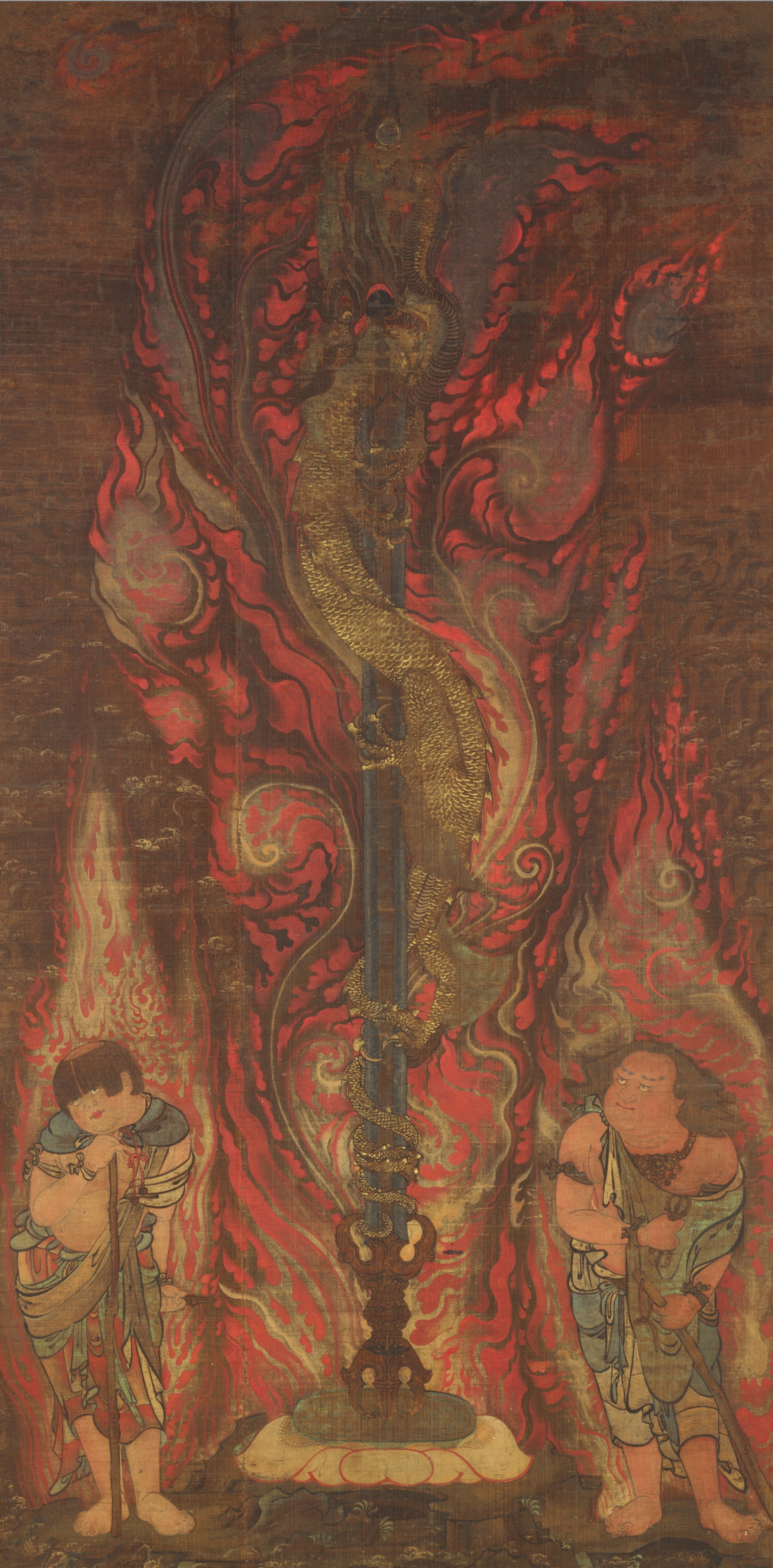 Sword with the Dragon Kurikara, Nara National Museum, Japan